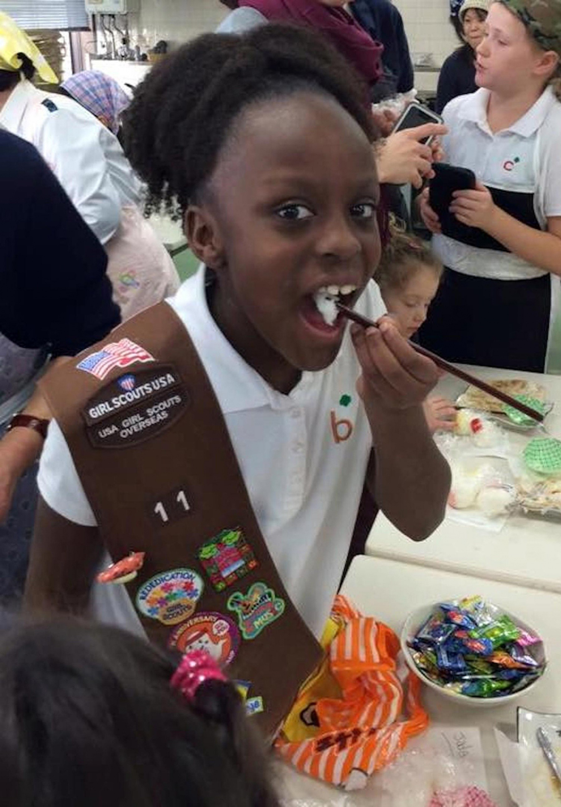 Camp Zama Girl Scouts participates in cultural exchange with their Japanese Girl Scout counterparts